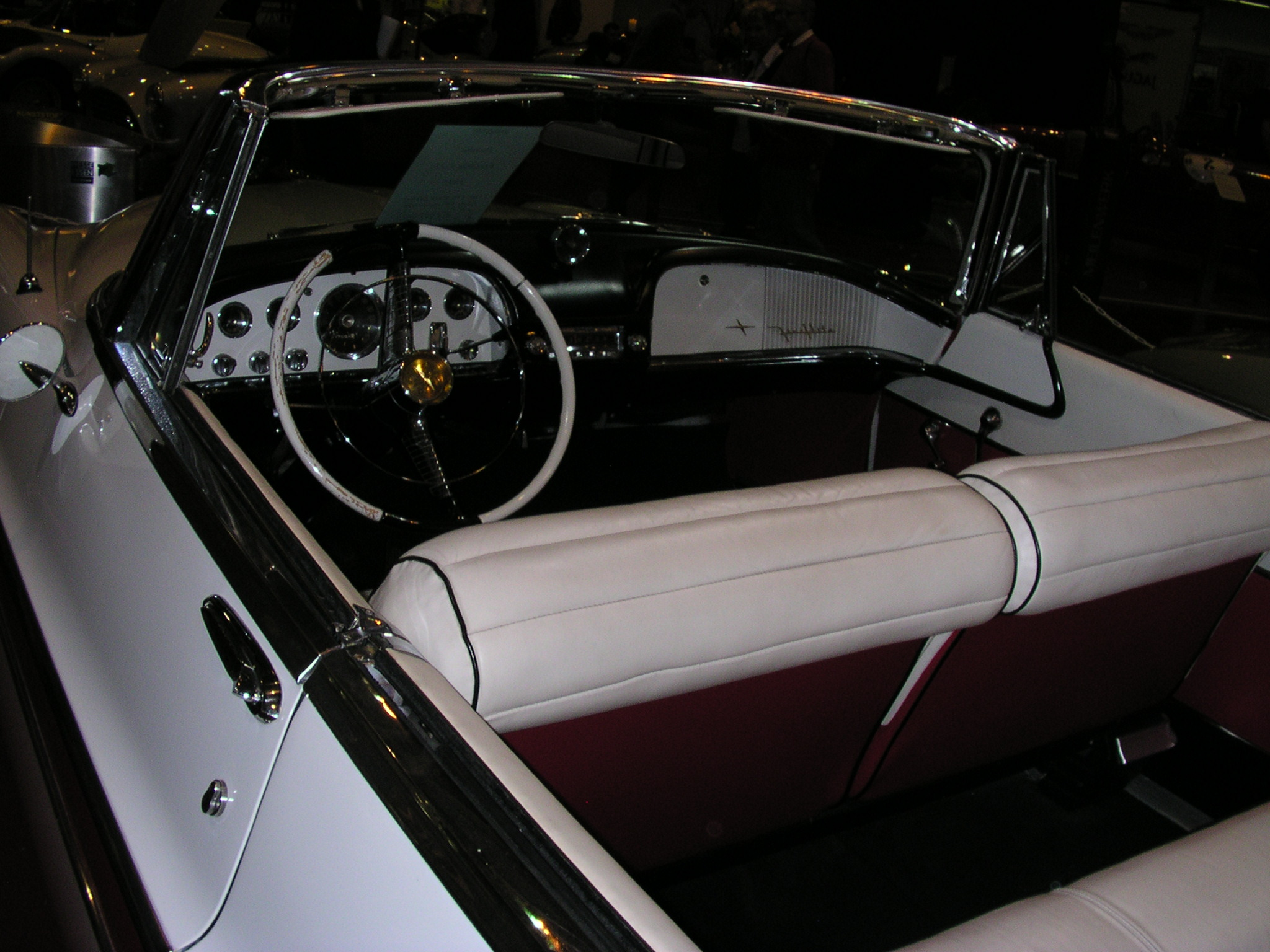 Techno-Classica 2007, De Soto Firflite S 21 (1955), only 186 were made